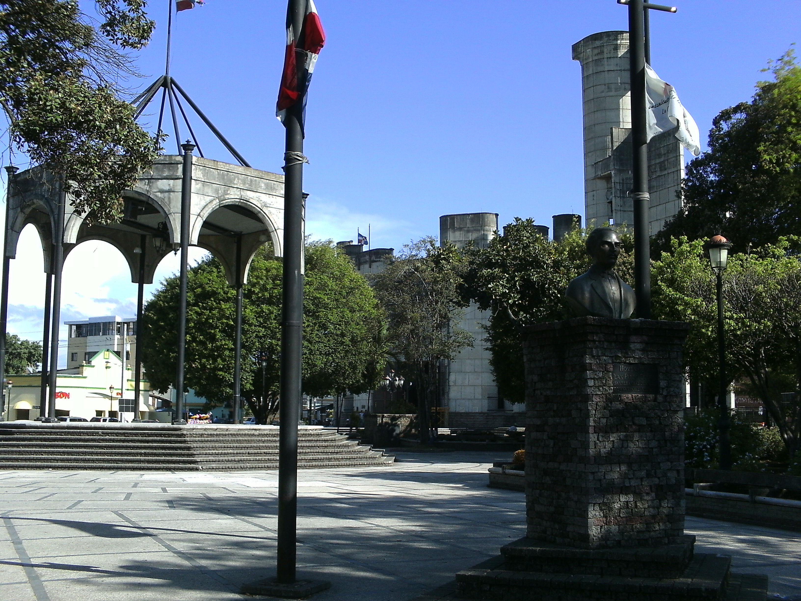 plaza duarte, Concepción La Vega